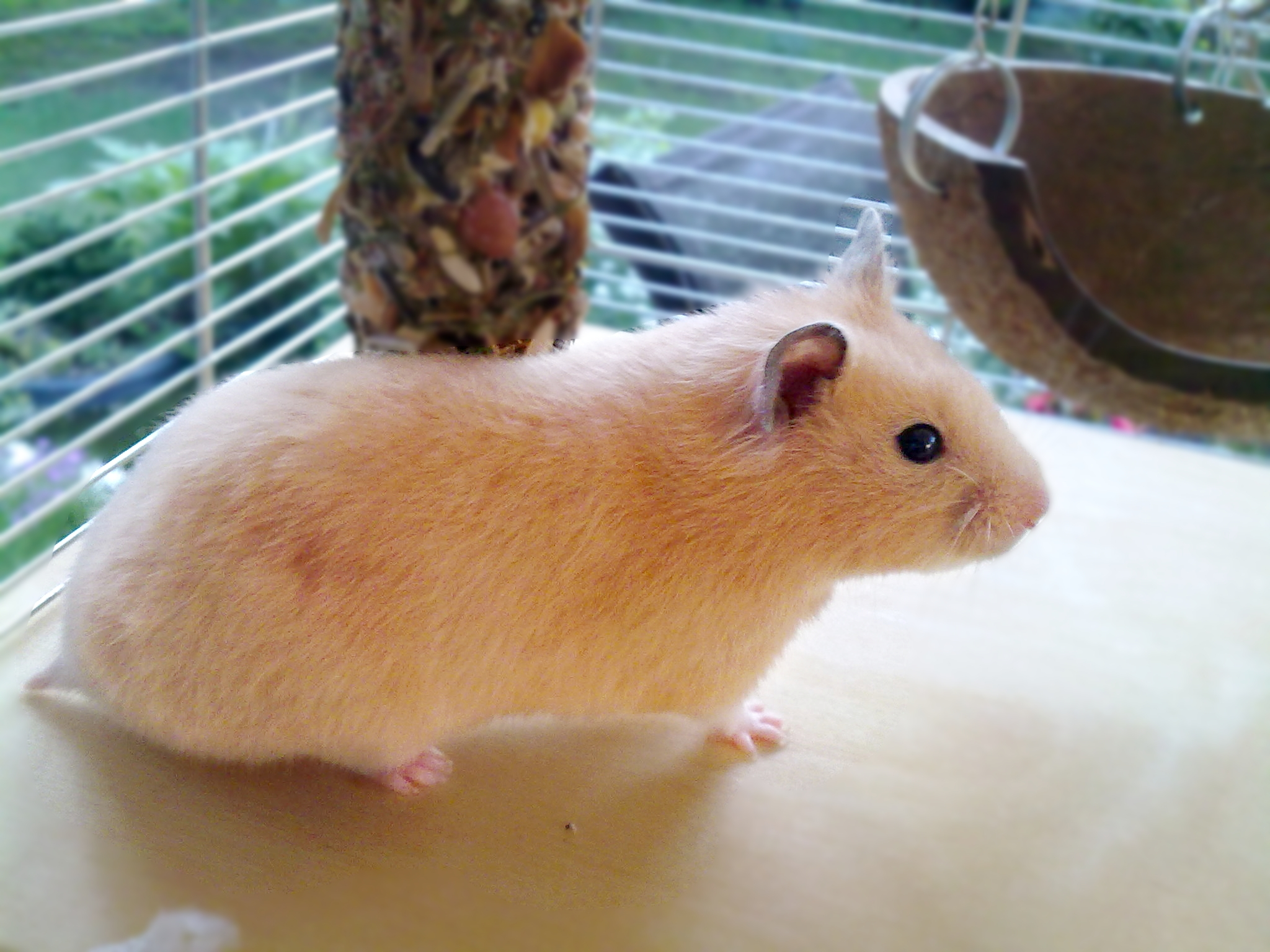 Syrian hamster (cream)